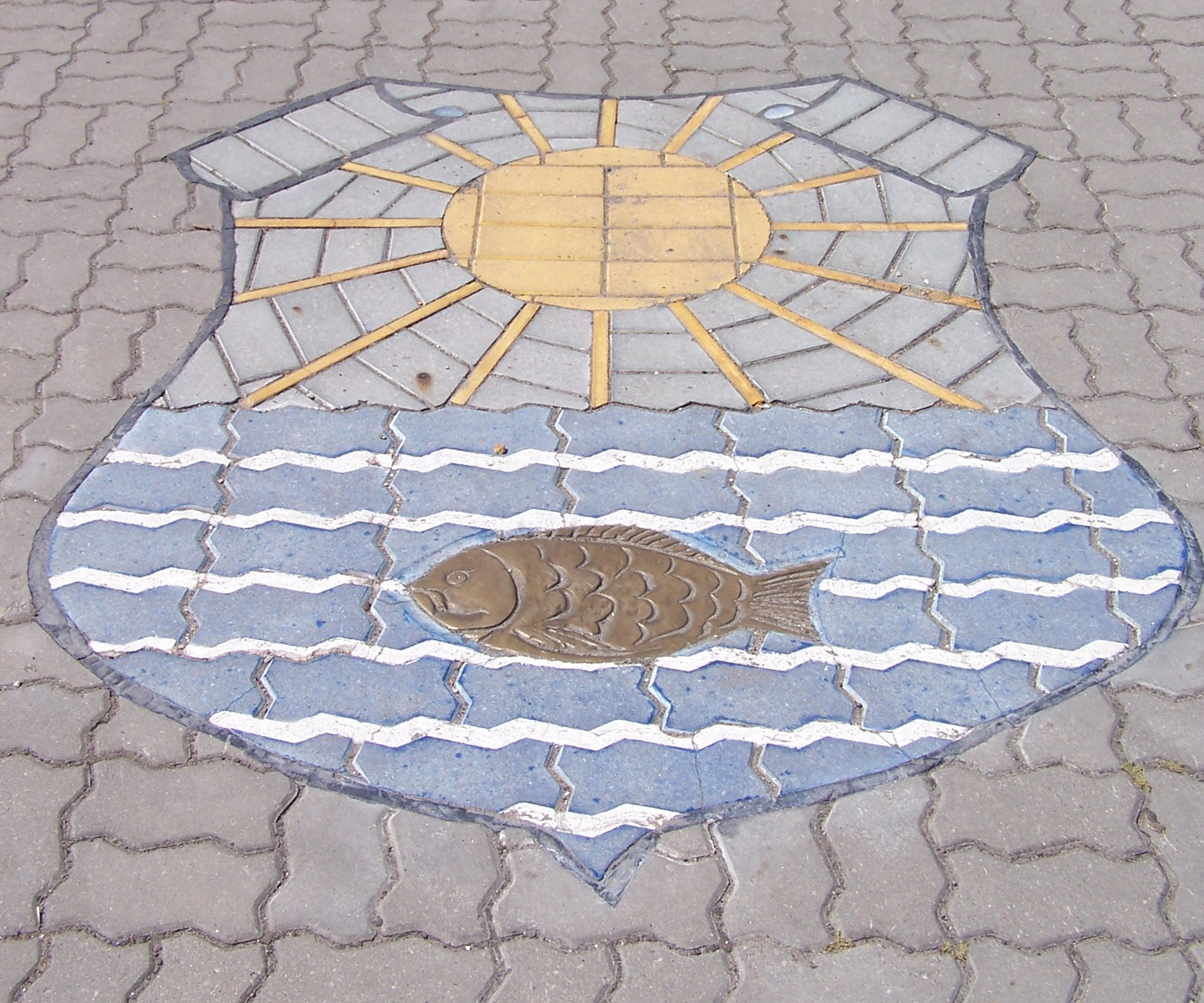 Dziwnówek, Poland - Coat of arms mosaic at road to church